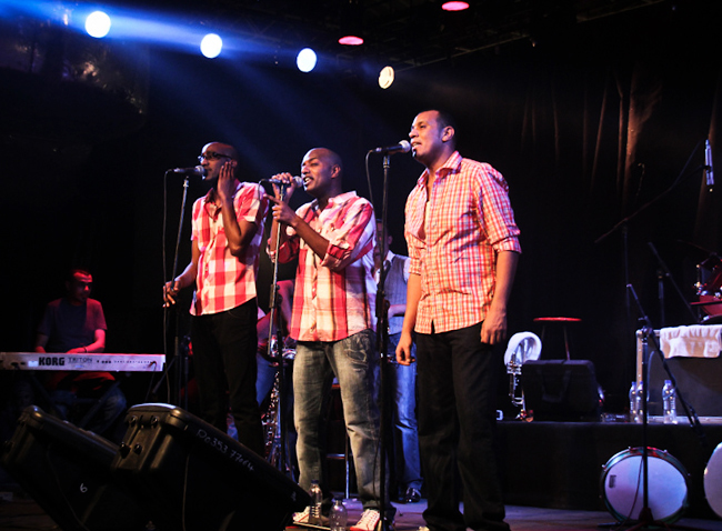 Black Thema band in 2011